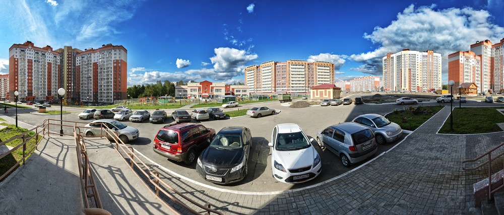 Sunflowers district in Tomsk